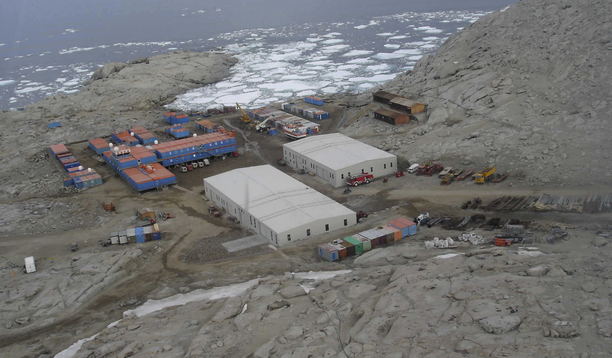 Stazione Mario Zucchelli at Terra Nova Bay, Antarctica, from the air. Italian research base. Looking north, shortly after sea ice break-out.